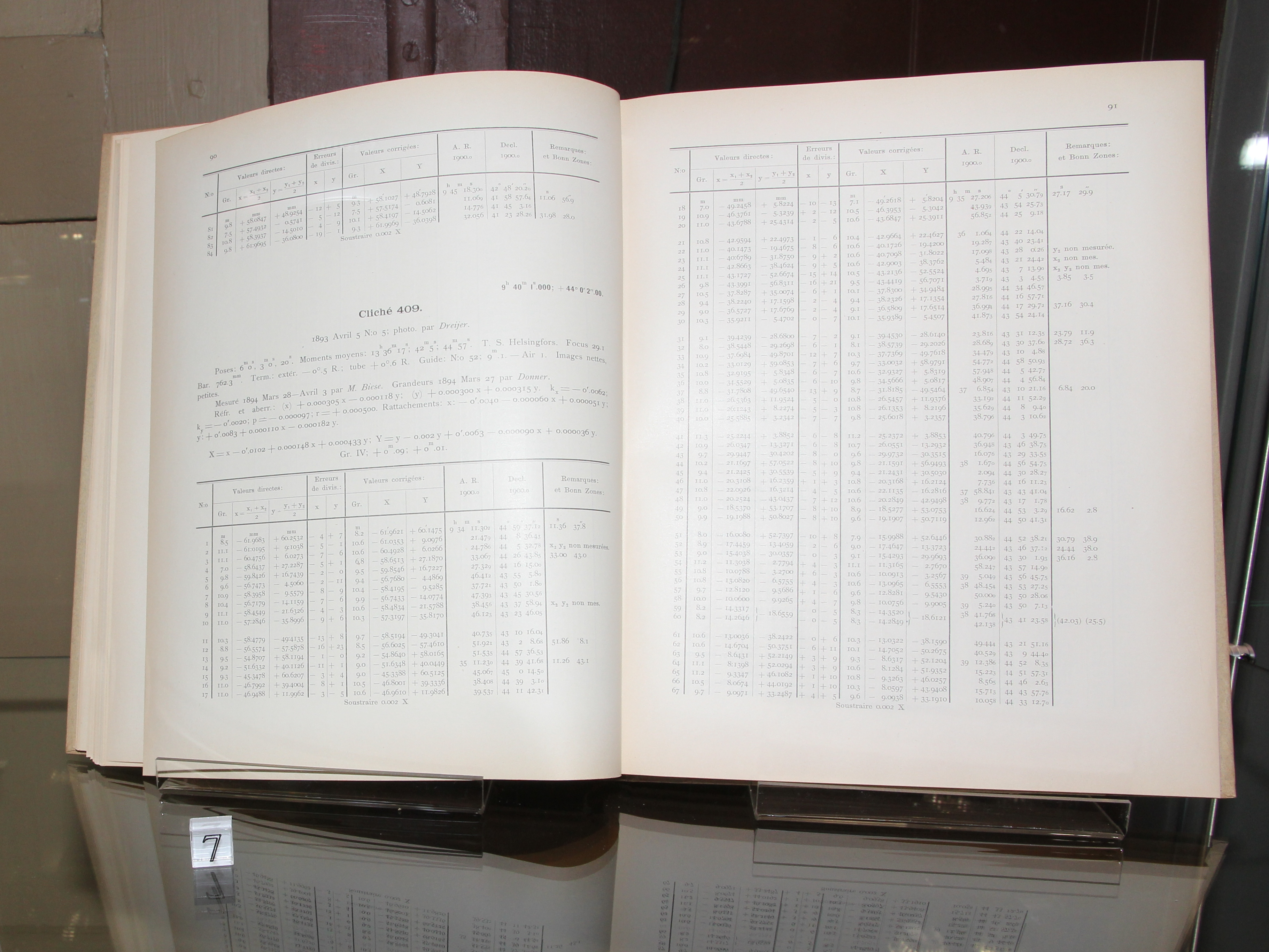 Catalogue photographique du Ciel. I-VIII, Helsingfors, 1903-1937 star catalogue in Helsinki observatory. Helsinki portion of the Carte du Ciel star catalogue, compiled by professor Anders Donner between 1890 and 1937.